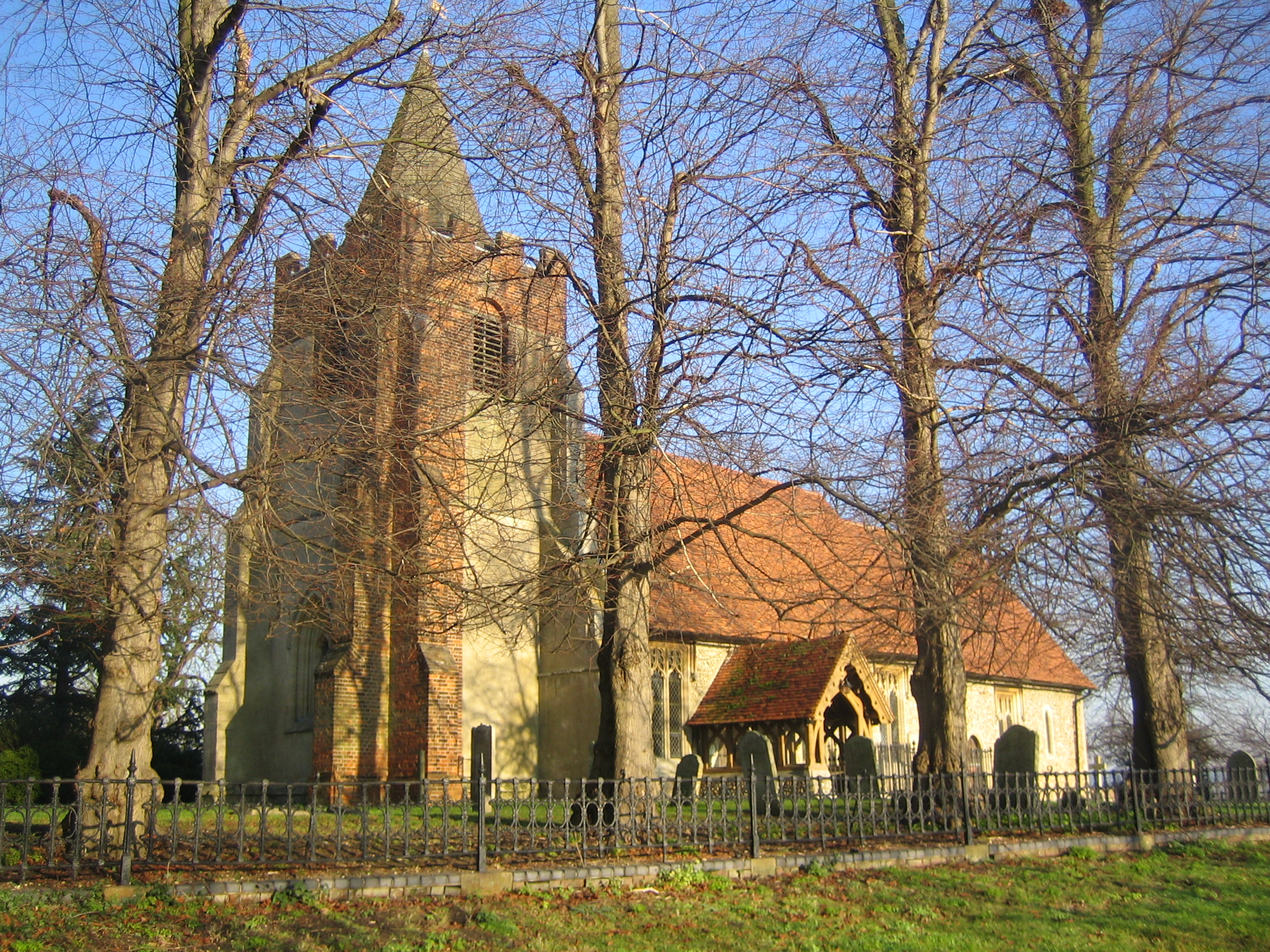 Photographed by me 20 December 2006